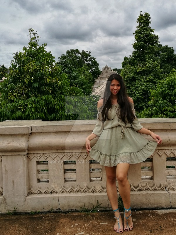 Barefeet girl